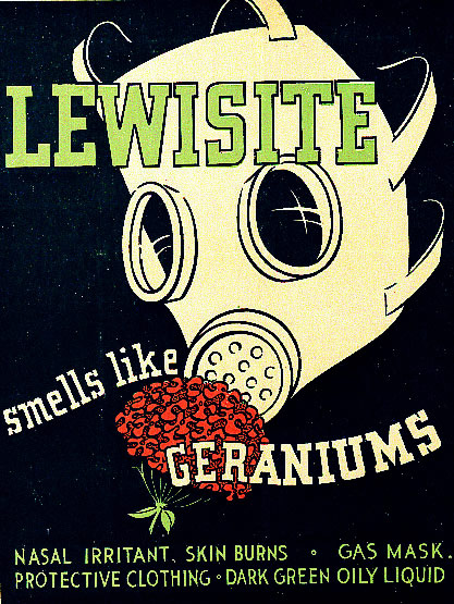 World War II Gas Identification Posters, ca. 1941-1945